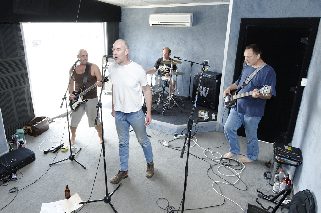 Guitarist Ruebin Pinkster, Drummer Todd McNeair, Vocalist Michael Harley and Bassist Dave Balsamo